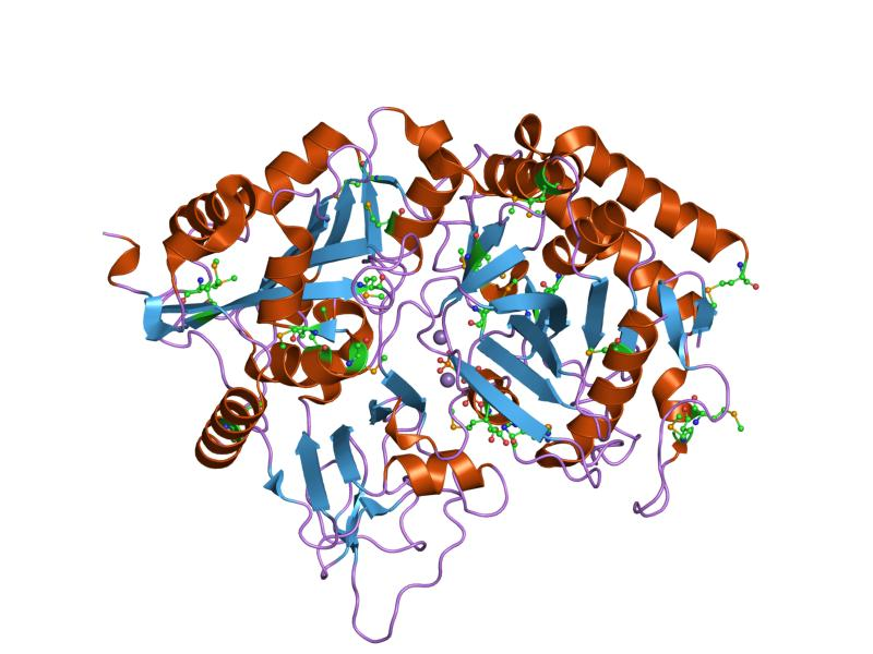 Cartoon representation of the molecular structure of protein registered with 1khe code.